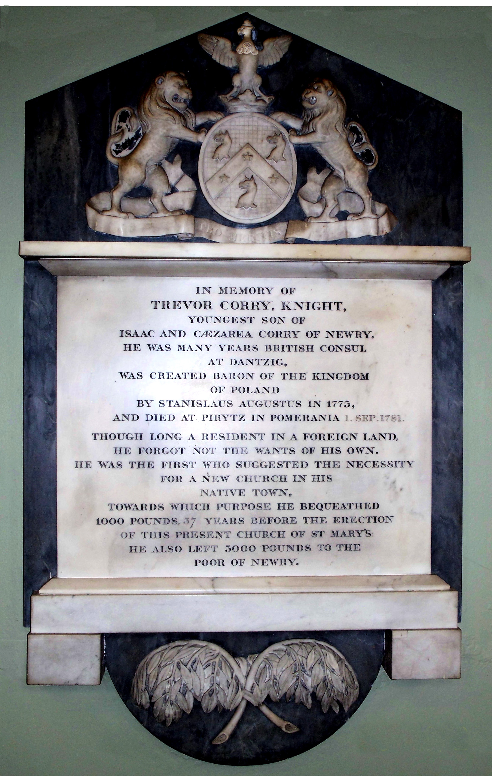 Sir Trevor Corry’s Memorial in St. Mary’s Church in Newry - the date of death is incorrect. The Corry Coat of Arms at the top includes the Polish White Eagle.